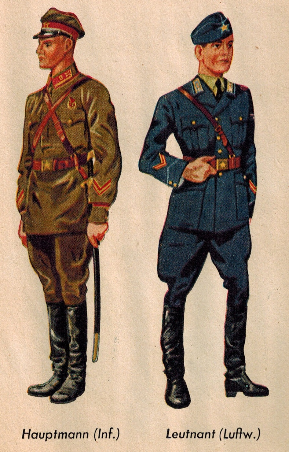 Pocketbook with information about Red Army organization for junior commanders.